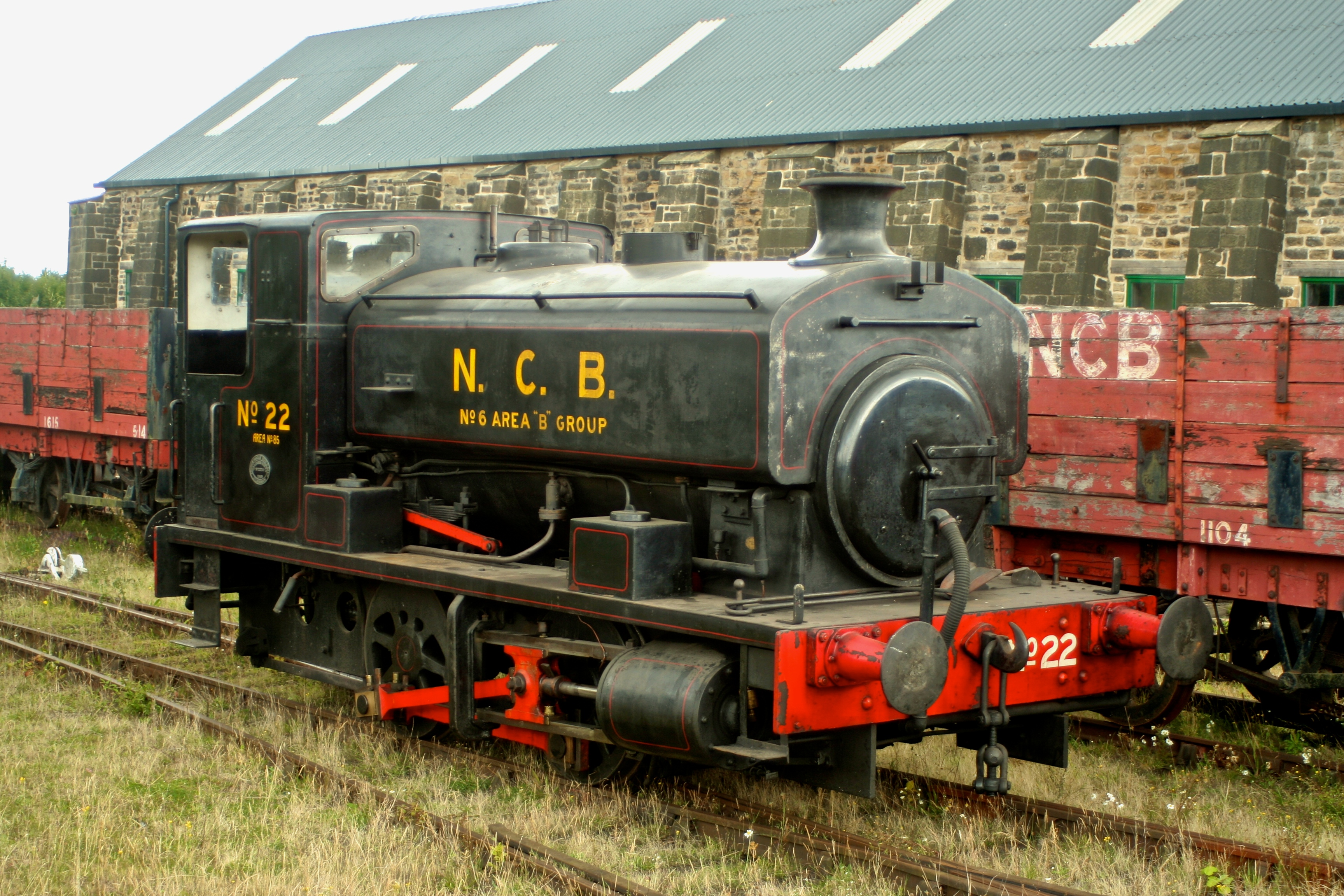 No. 22 Steam Engine in front of the wagon shop at Bowes Railway, Springwell Village.